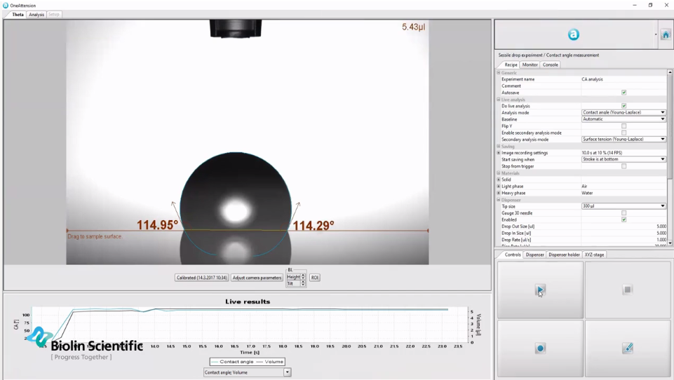 Automatic contact angle measurement with sessile drop technique.